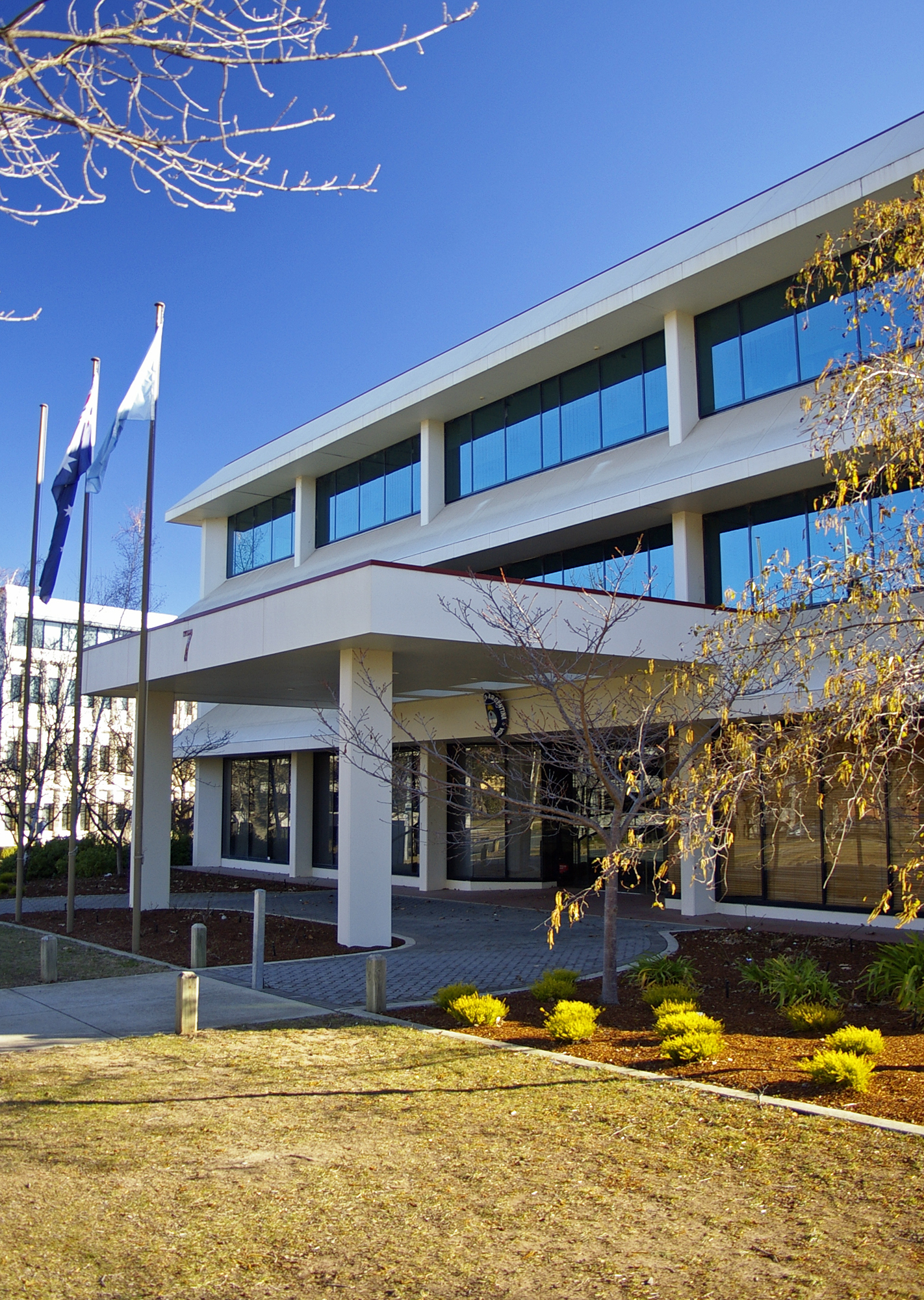 Embassy of Argentina in the Canberra suburb of Barton, Australian Capital Territory.